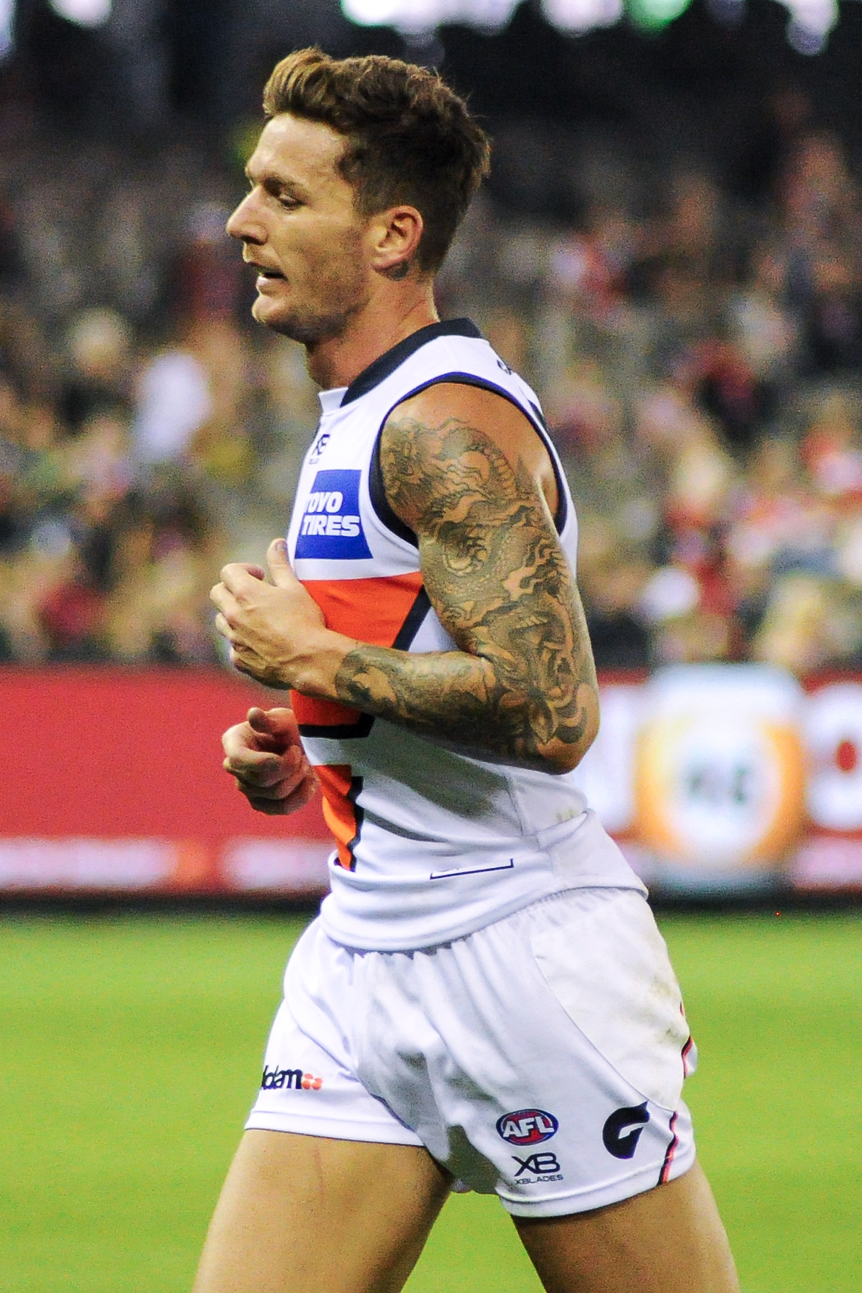 Daniel Lloyd during the AFL round five match between St Kilda and Greater Western Sydney on 21 April 2018 at Etihad Stadium in Melbourne, Victoria.